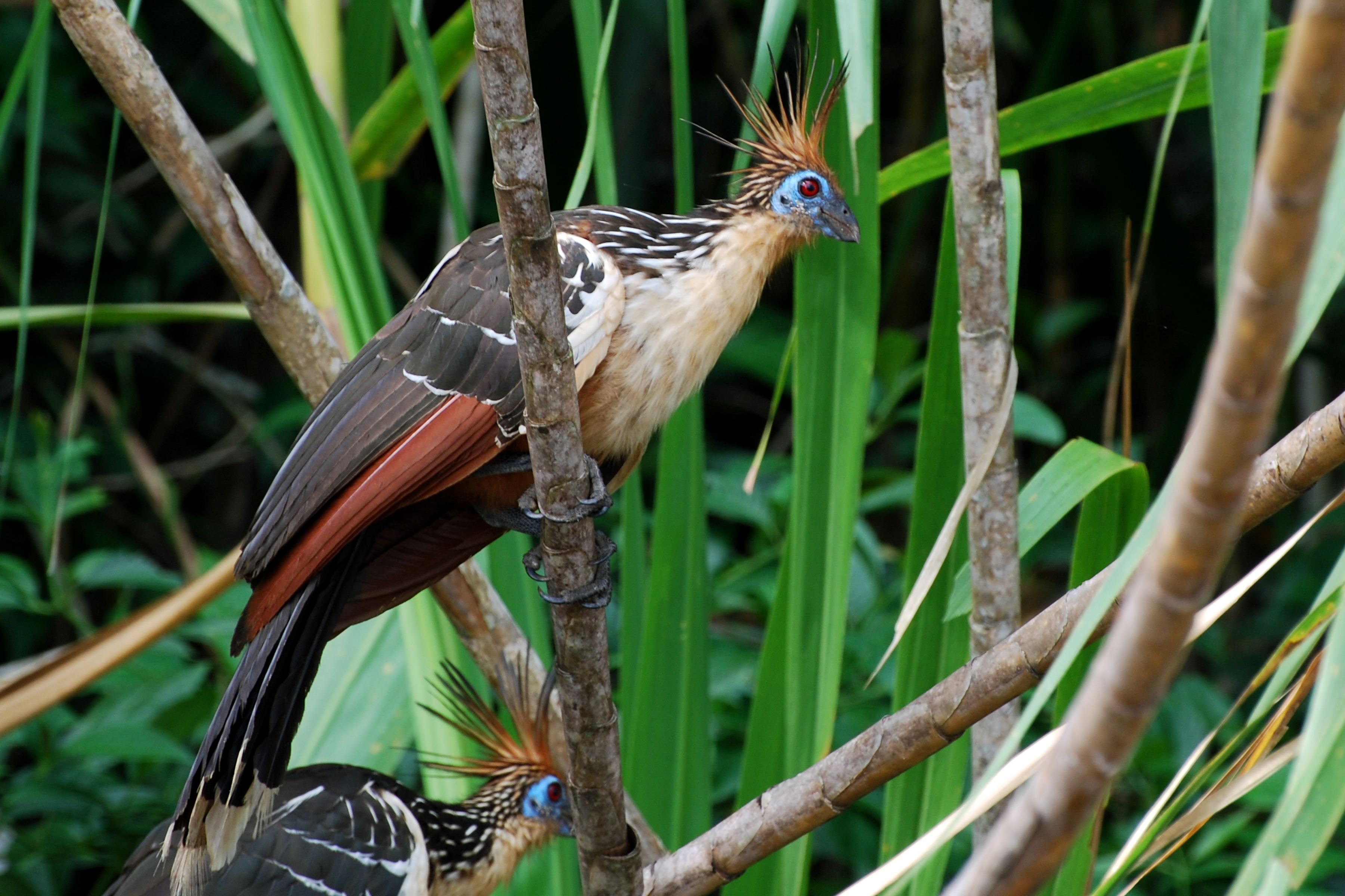 Opisthocomidae: Opisthocomus hoazin Found along the Rio Napo, Orellana, Ecuador